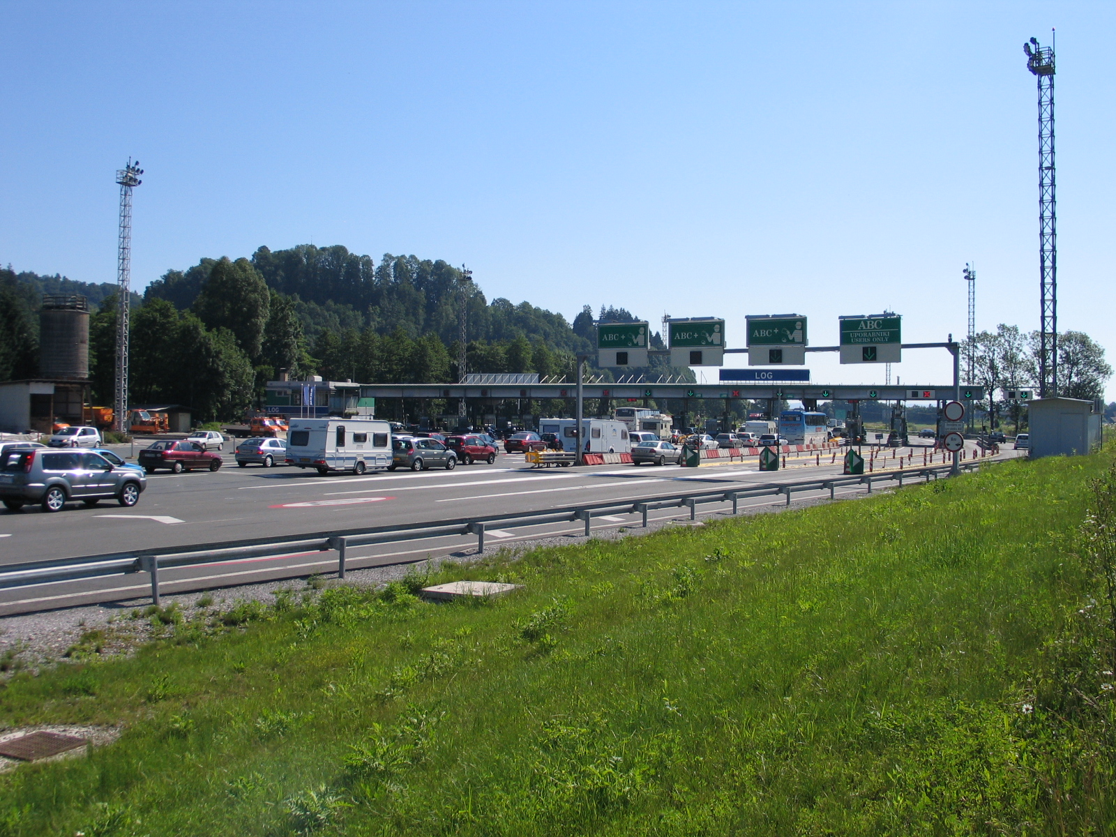 "Log" toll station on the A1 motorway (Slovenia)